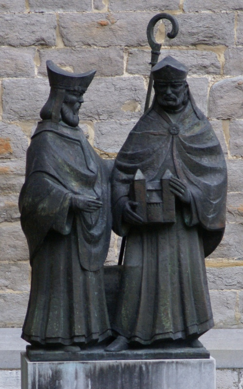 Statue of Monulphus and Gondulphus, Sint Servaasklooster, Maastricht, The Netherlands. By Jef Courtens, 1993.